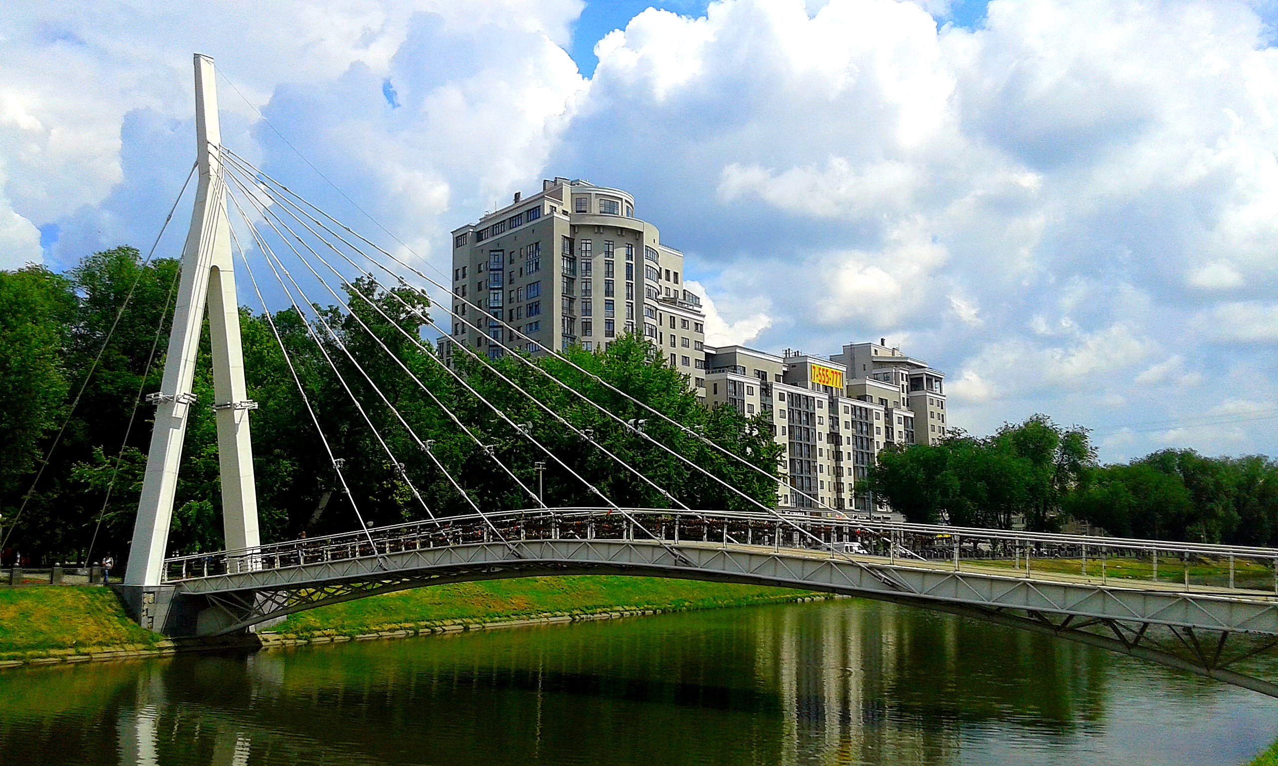 (30) VIEW ON PEDESTRIAN BRIDGE OVER KHARKIV RIVER IN CITY OF KHARKIV STATE OF UKRAINE PHOTOGRAPH BY VIKTOR O LEDENYOV 20160616